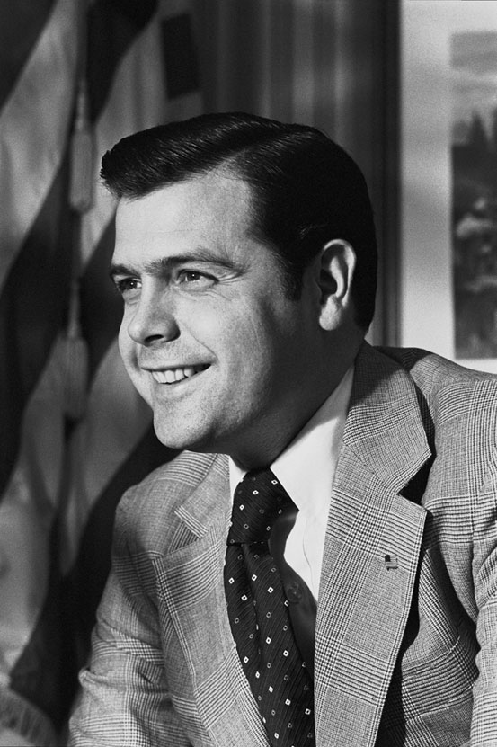 Portrait of Deputy Assistant to the President (Presidential Appointments Secretary) Dwight Chapin